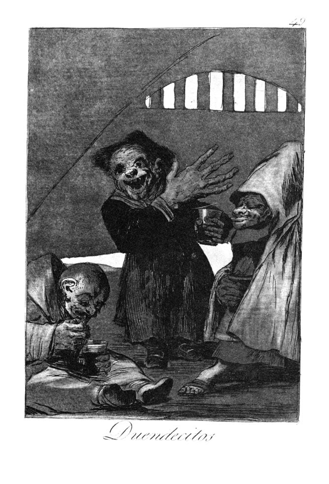 Los Caprichos is a set of 80 aquatint prints created by Francisco Goya for release in 1799.